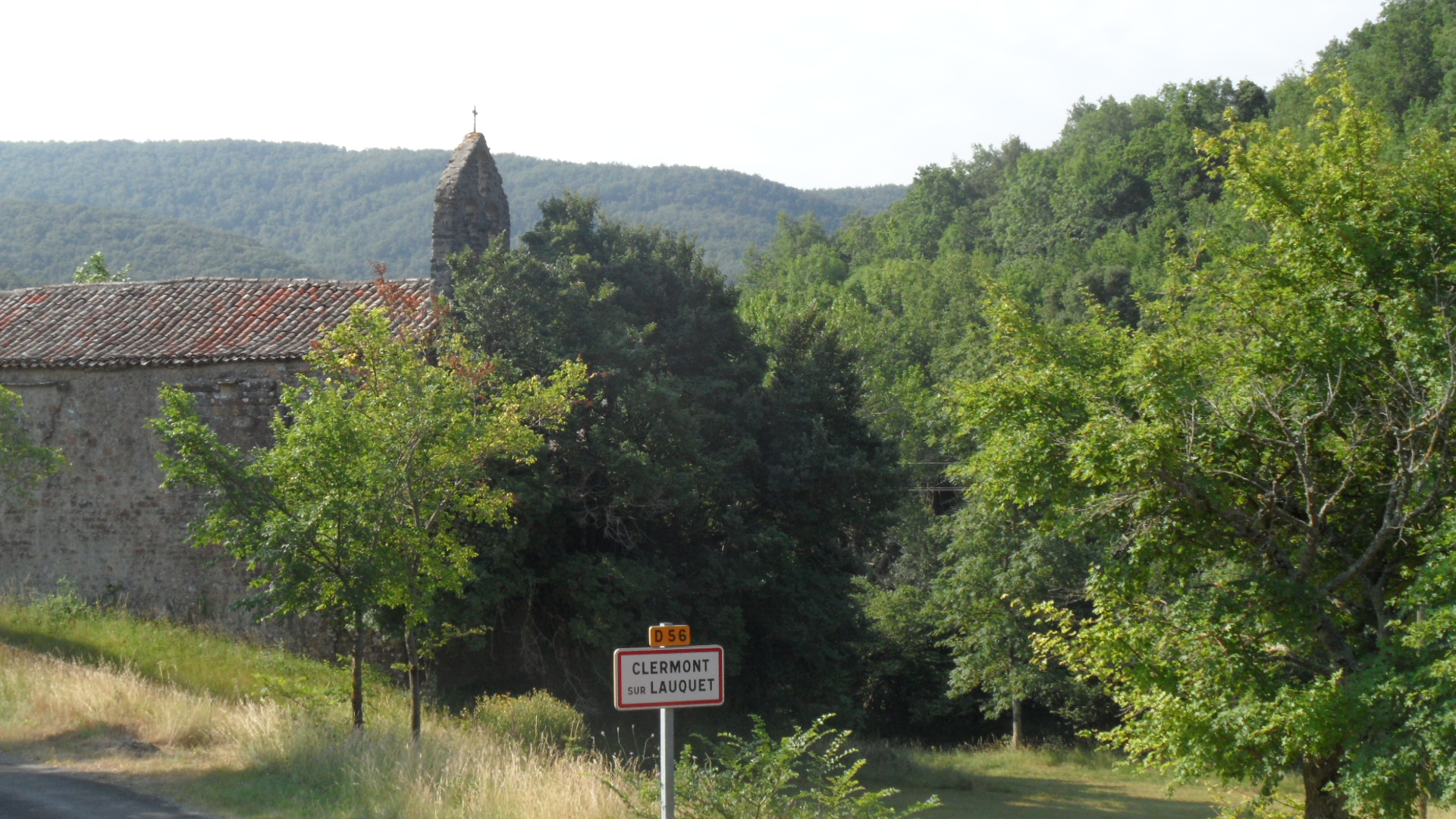 Clermont-sur-Lauquet church, Aude, France